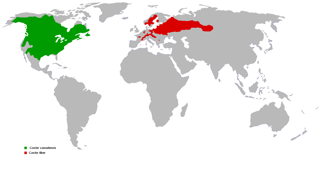 Distribution map of Castor fiber (red) and Castor canadensis (green).